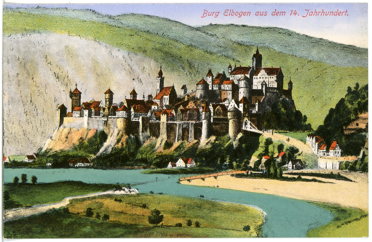 This postcard is from publisher Brück & Sohn in Meißen ( This postcard has a unique number 17596 and is available in a higher resolution at the publisher. This images was uploaded in a cooperation project between Wikipedians and the publisher.